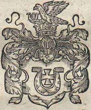 Jastrzębiec coat of arms by B. Paprocki, published in "Gniazdo cnoty.."